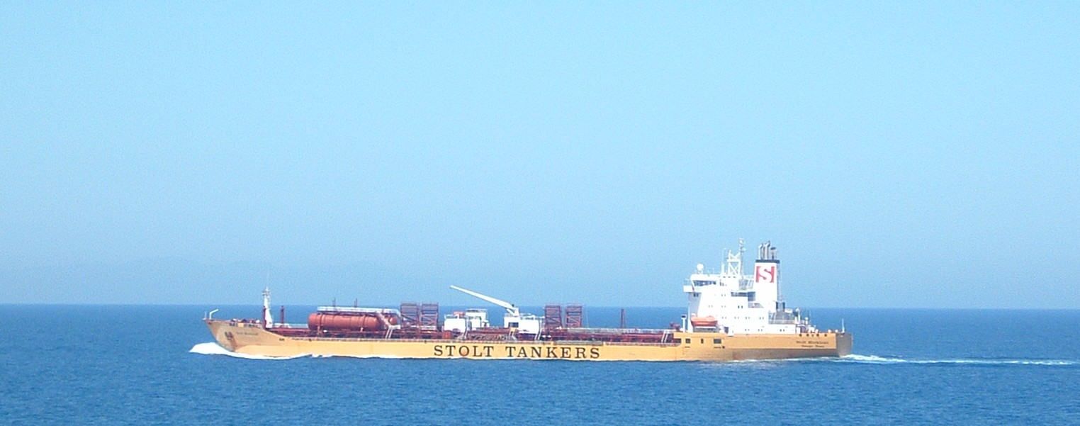 Cargo vessel STOLT at sea ; probably the chemical tanker Stolt Markland, chemical/oil products carrier, 18994 ums, 1991. IMO Number: 8906937 MMSI Number: 319514000 Callsign: ZCGT8 Length: 175 m Beam: 30 m